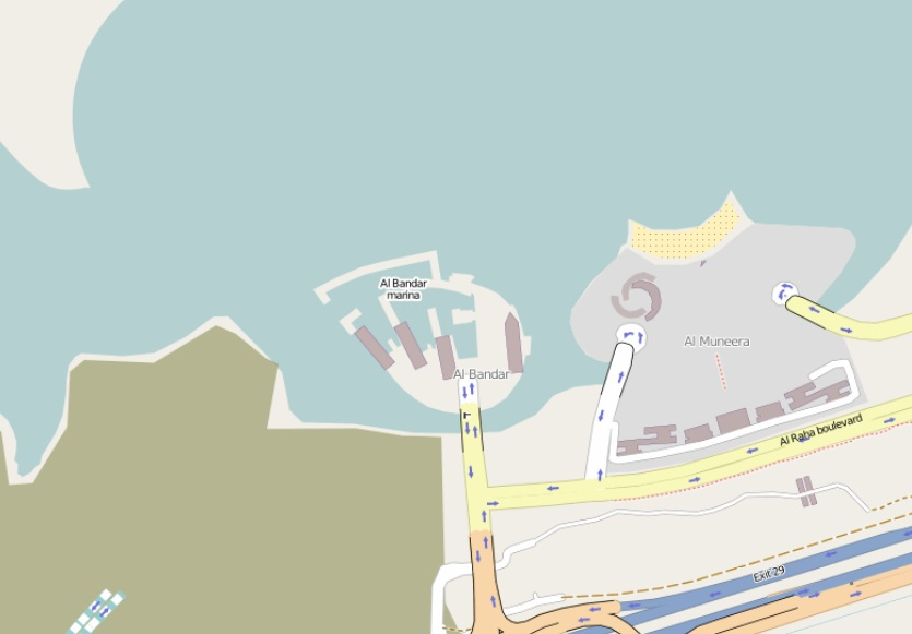 Map of the Al Bandar Community This map of Abu Dhabi, United Arab Emirates was created from OpenStreetMap project data, collected by the community. This map may be incomplete, and may contain errors. Don't rely solely on it for navigation.